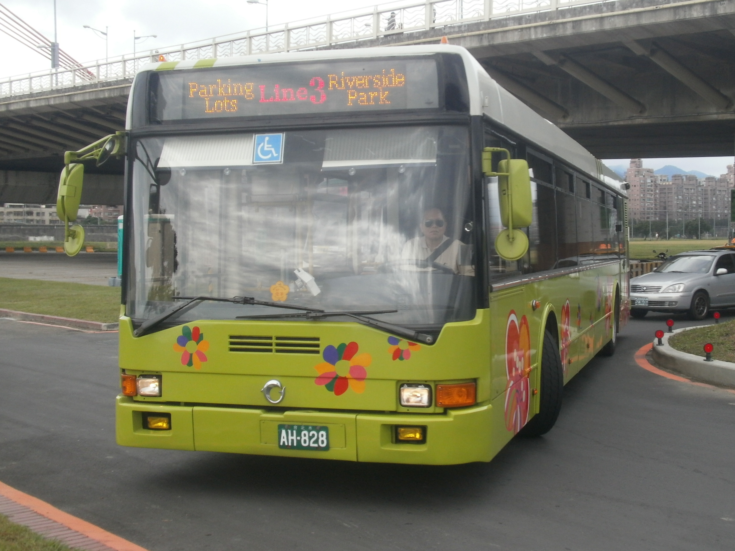 Expo Bus Line 3. Irisbus bus.